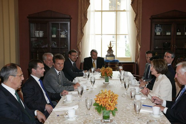 Meeting with US Congress leaders